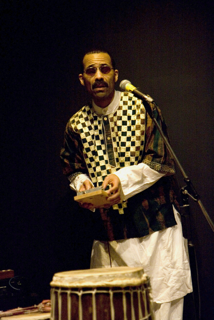 Kahil El'Zabar at Chicago's Ethnic Heritage Ensemble performed two inspired sets of music in Hallwalls' performance space on 2/6/08.